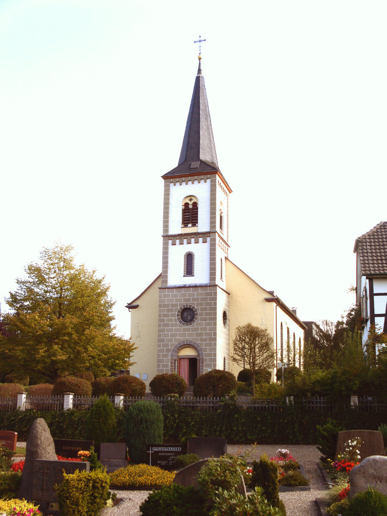 Protestant Bartholomäus-Kirche (St. Bartholomäus auf dem Berg) in Wahlscheid, town of Lohmar